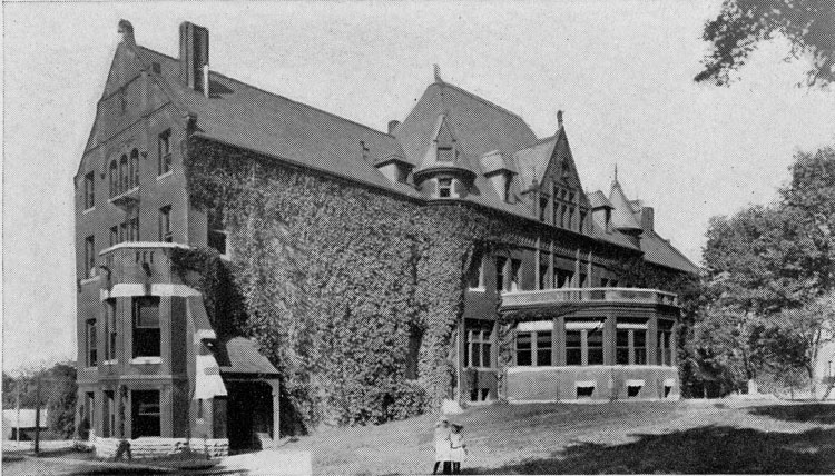 Lathrop Hall on the University of Missouri campus in Columbia, Missouri. Picture from the 1905 Savitar